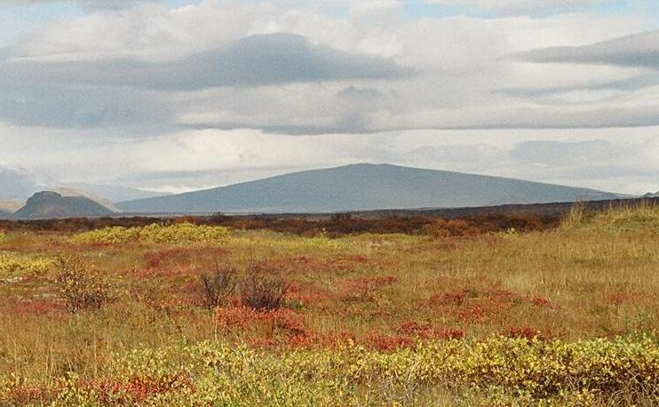 The volcano Skjaldbreiður, National Park of Þingvellir, Iceland.